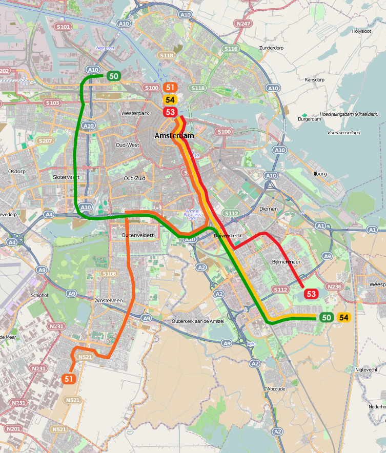 Amsterdam Metro